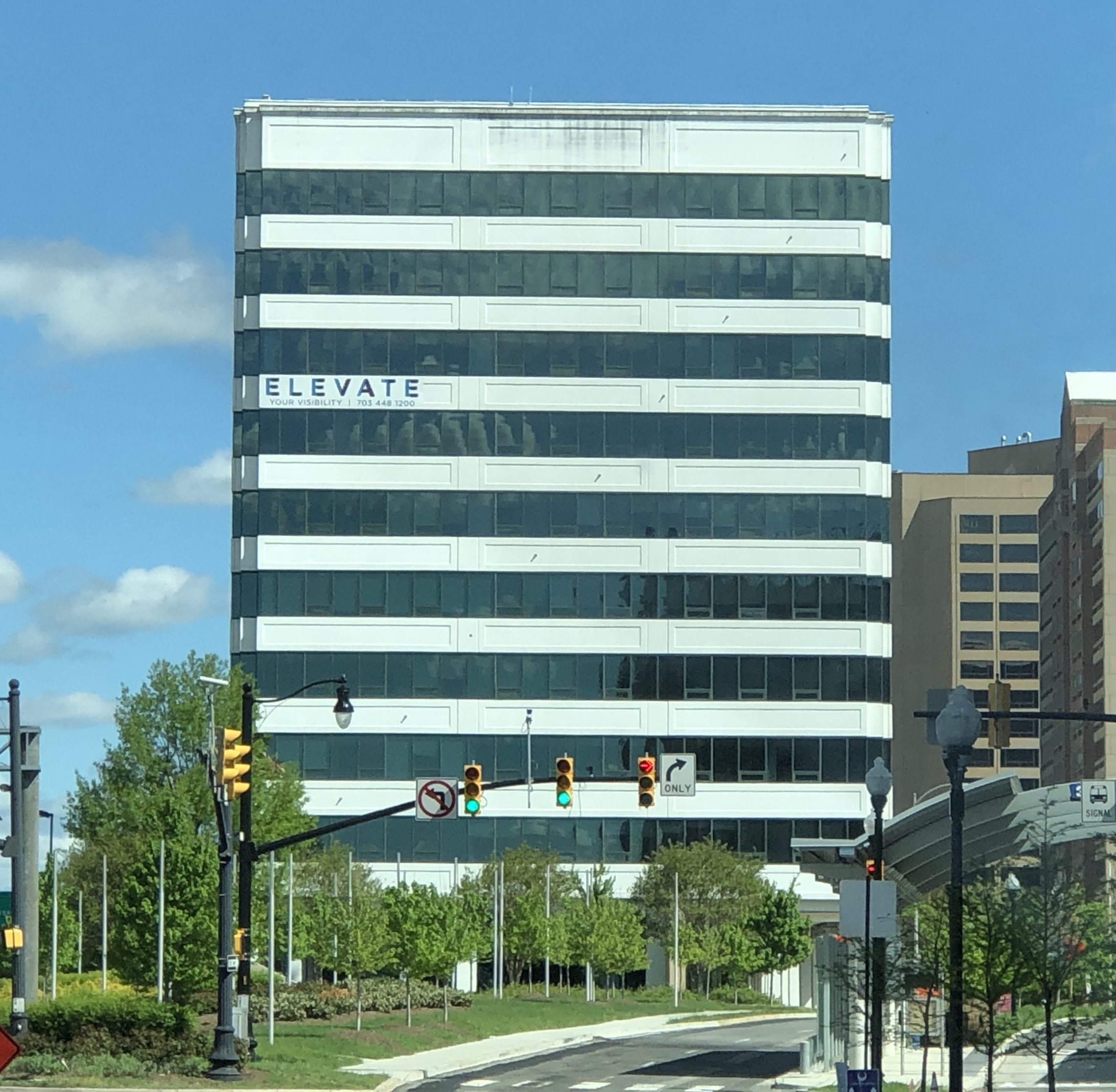 2900 Crystal Drive, Arlington VA